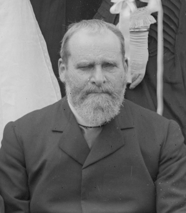 Archbishop Redwood, taken from detail of the Wedding of Cyril and Elinor Ward, and silver wedding of Sir Joseph and Lady Ward, 1908. Photograph taken by Sydney Charles Smith. Location probably Wellington.